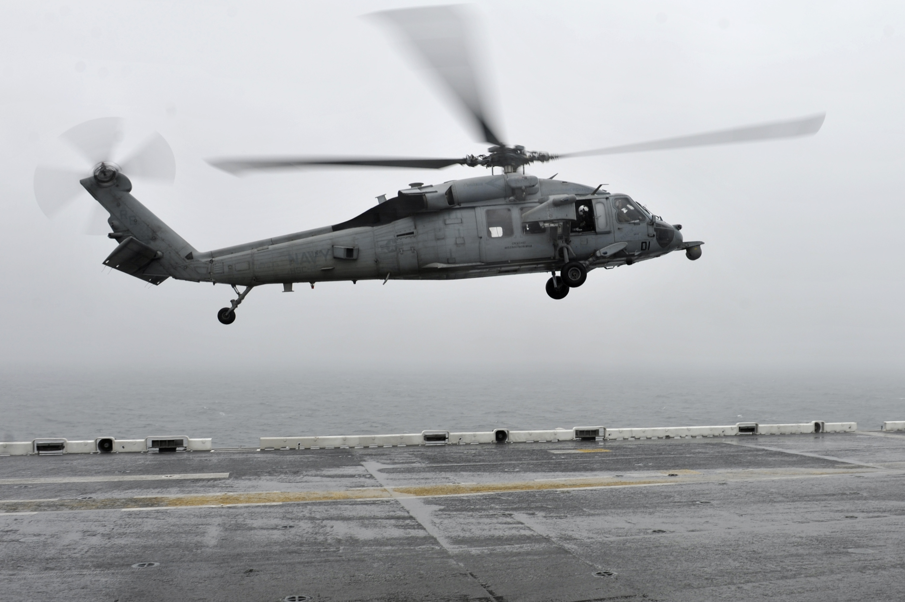 EAST CHINA SEA (April 17, 2014) An MH-60S Sea Hawk helicopter, assigned to Helicopter Sea Combat Squadron (HSC) 25, lands on the flight deck of the forward-deployed amphibious assault ship USS Bonhomme Richard (LHD 6) after conducting search and rescue operations. Sailors and Marines onboard Bonhomme Richard are conducting search and rescue operations as requested by the Republic of Korea navy near the scene of the sunken ferry Sewol in the vicinity of the island of Jindo. (U.S. Navy photo by Mass Communication Specialist 2nd Class Adam D. Wainwright/Released)